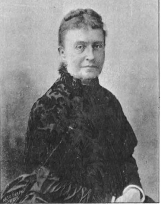 Euphrosine Beernaert, (Oostende, 11 April 1831 - Elsene, 7 July 1901), Belgian landscape painter